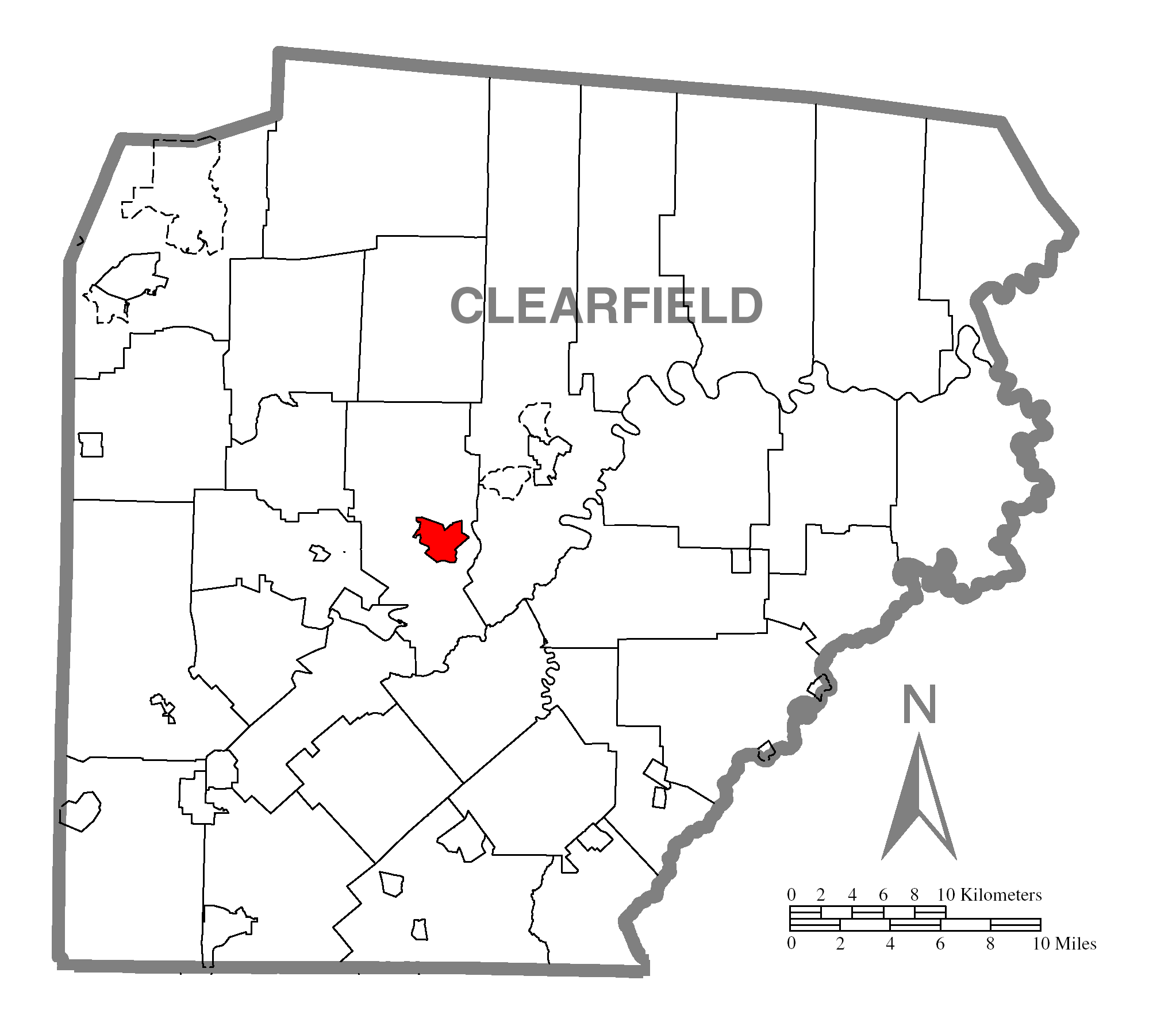 A map of Clearfield County showing Curwensville, Pennsylvania (alternate) highlighted on the map.